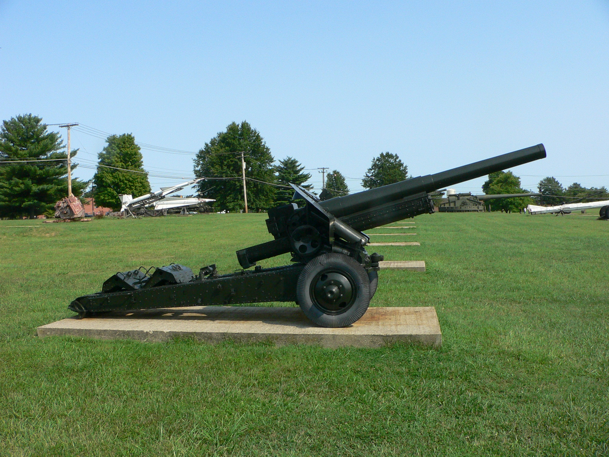 Picture taken by myself, Mark Pellegrini, at the United States Army Ordnance Museum (Aberdeen Proving Ground, MD) on August 14, 2007.